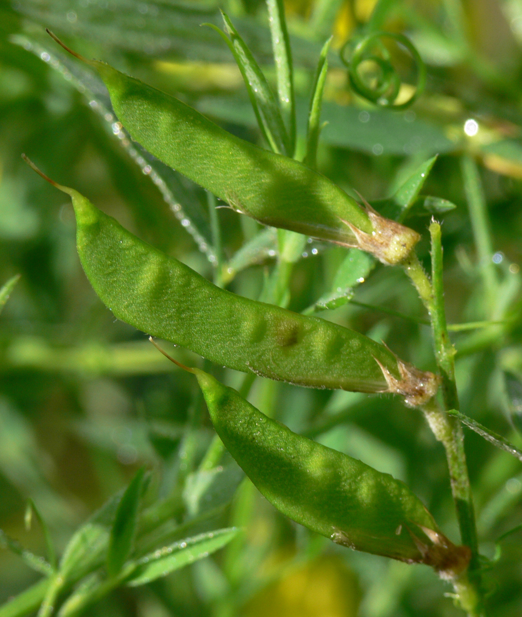 Meadow vetchling, Meadow pea, Meadow pea-vine